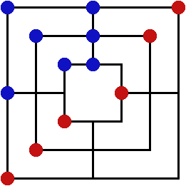 Position with maximal a winner in a perfekt game: red's turn, wins in 165 moves